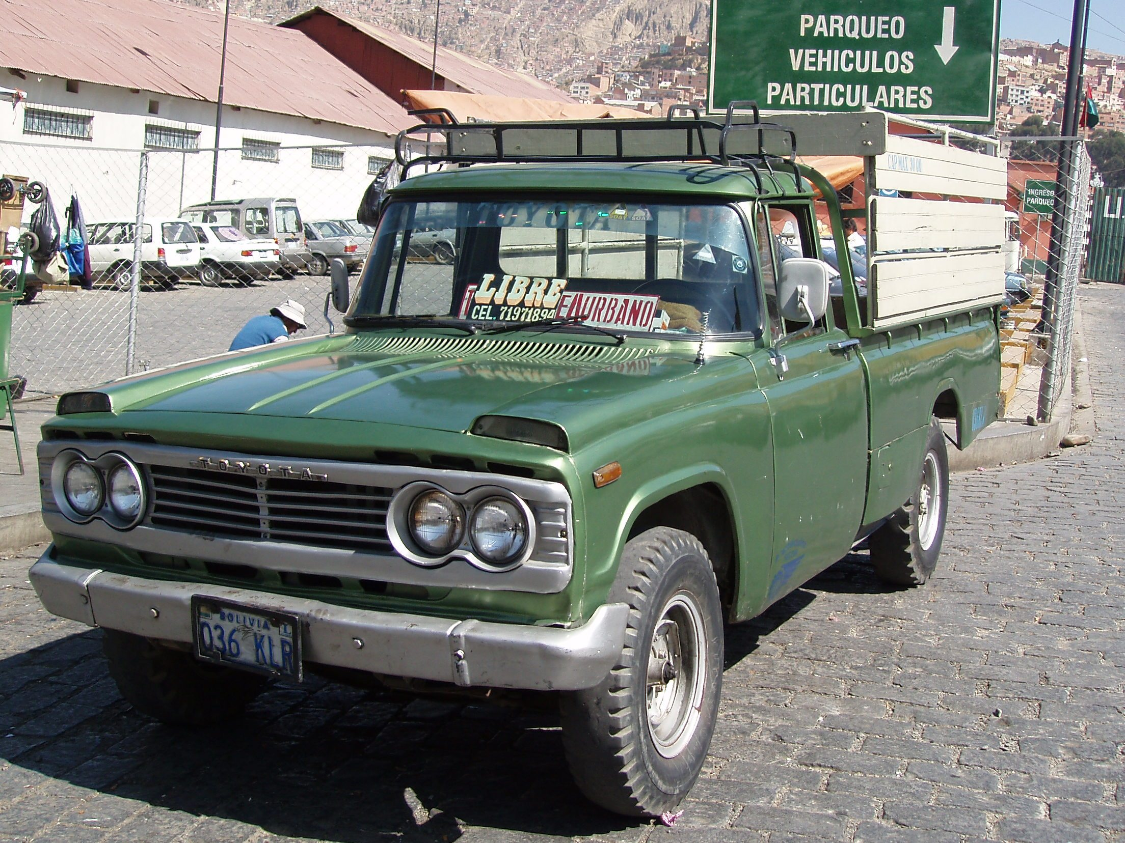 Toyota Stout, the second generation ( RK 101 ) .